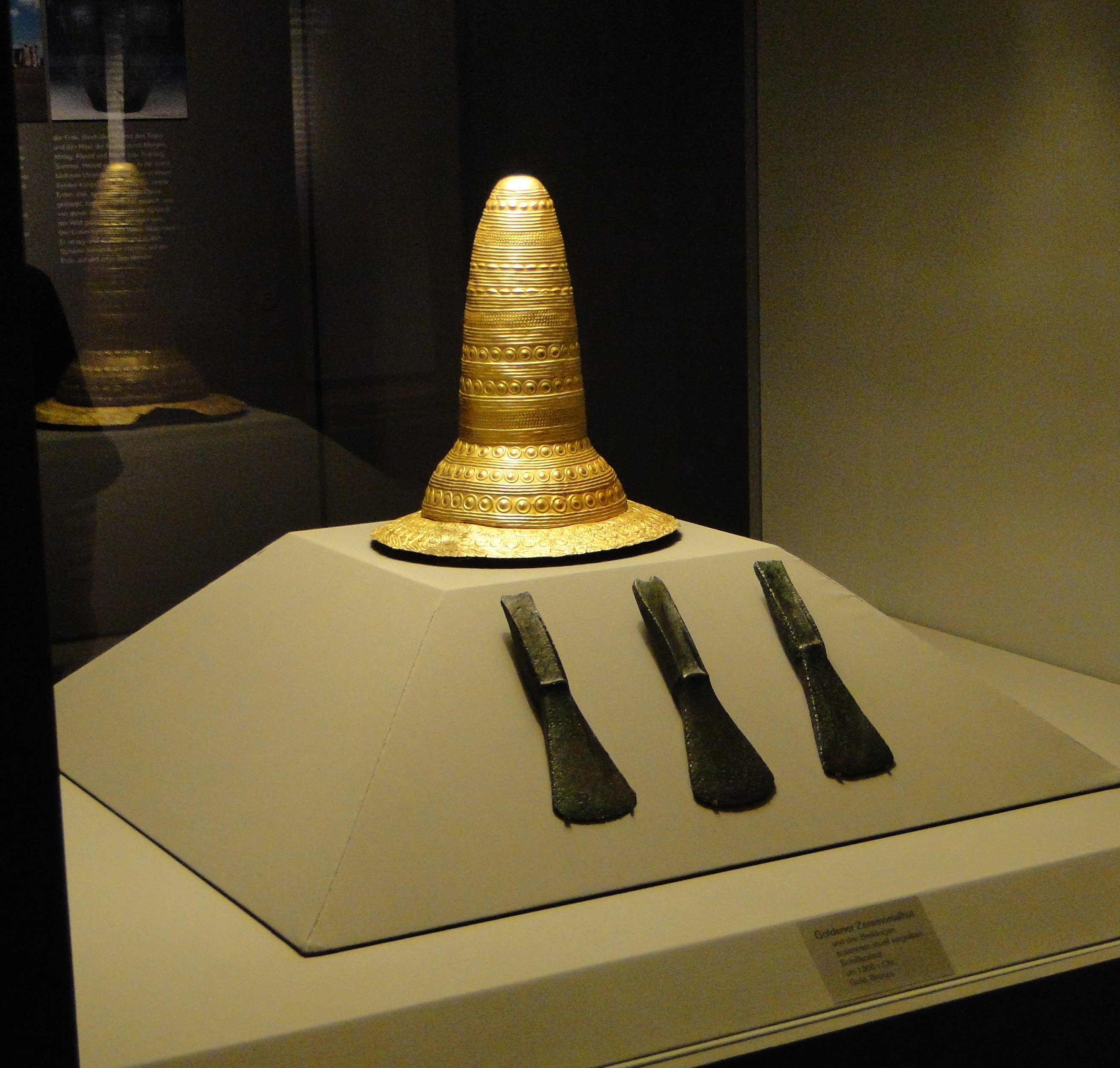 "Golden Ceremonial Hat" in Historical Museum of the Palatinate, permanent exhibition display case, Speyer, Rhineland-Palatinate, Germany